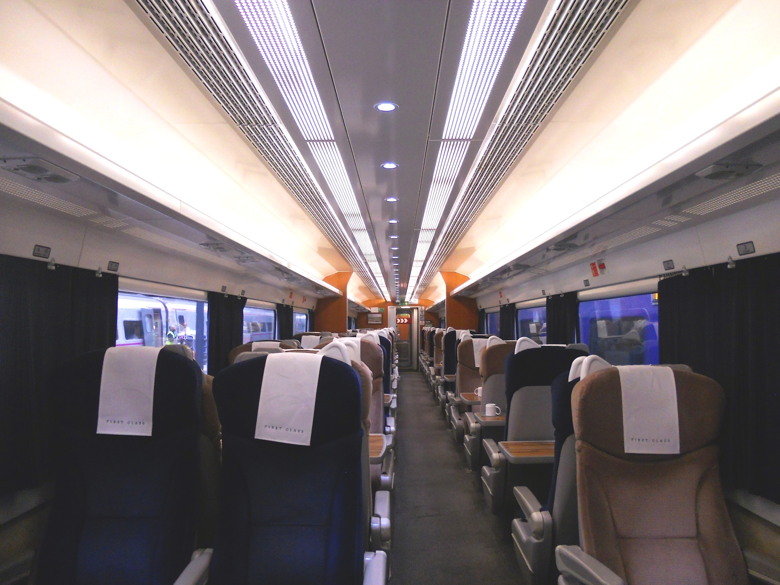 The interior of First Class aboard a GNER refurbished Mark 3 Trailer First vehicle